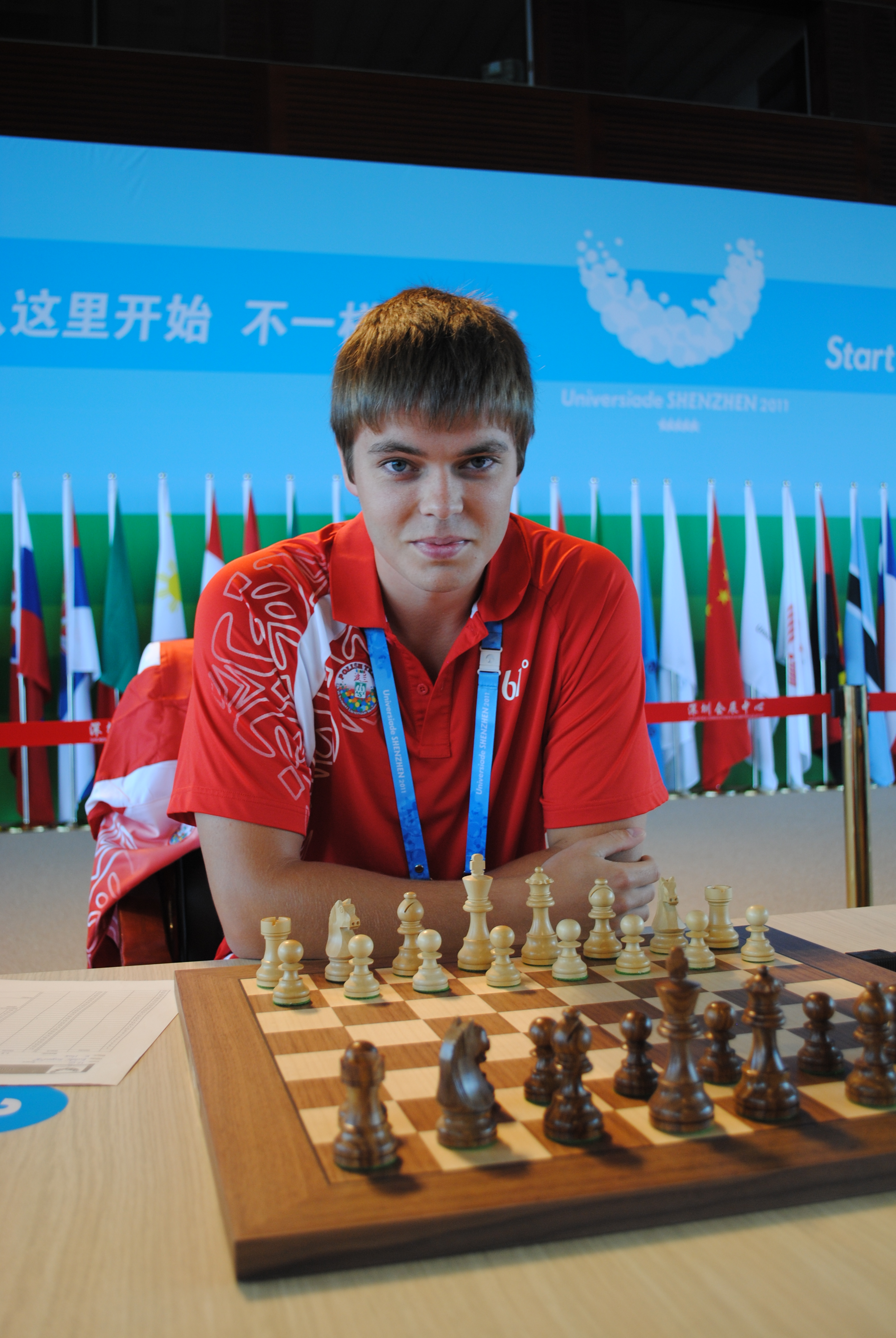 China 2011